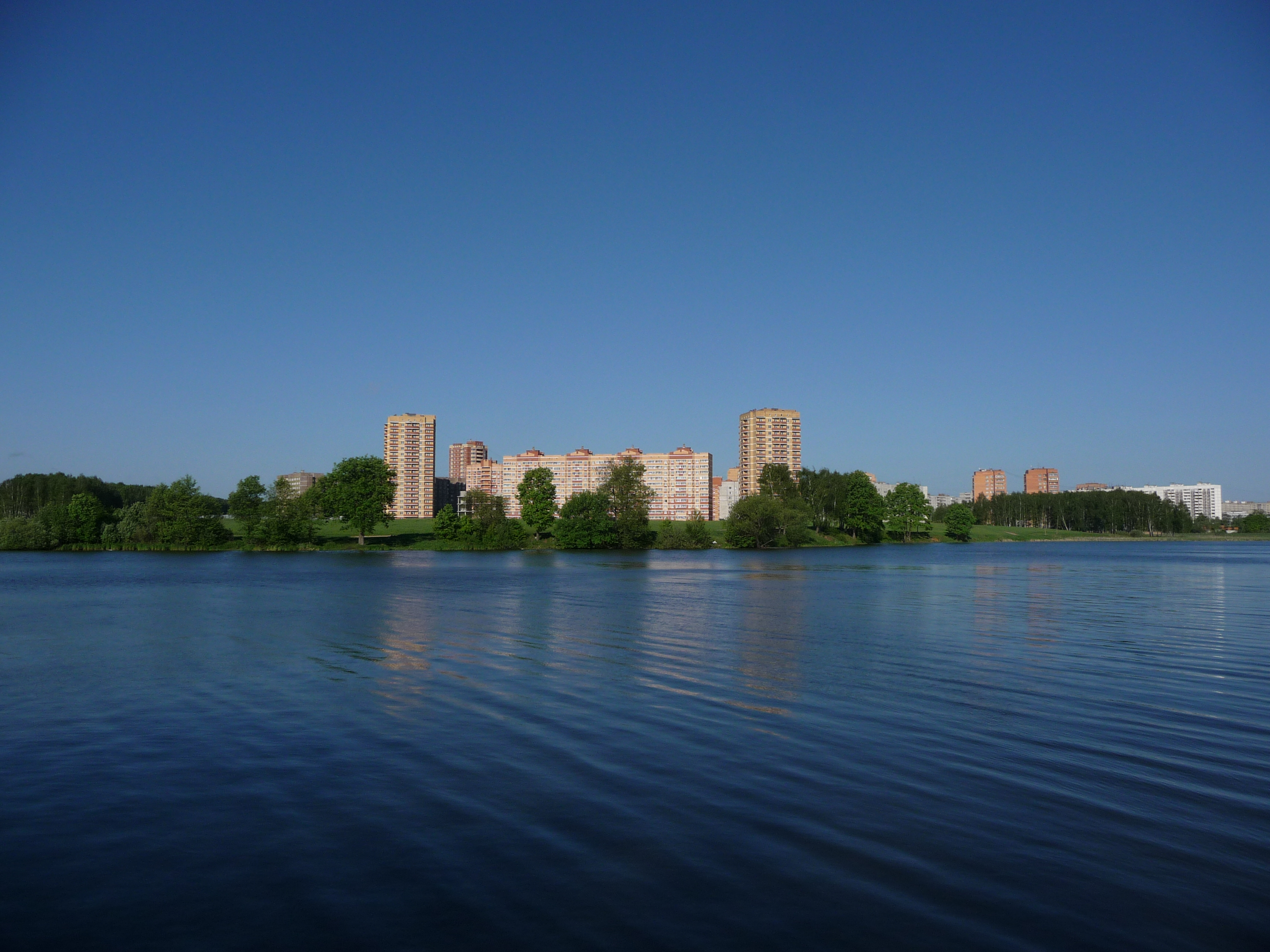 View Fryazino from the estate Grebnevo.